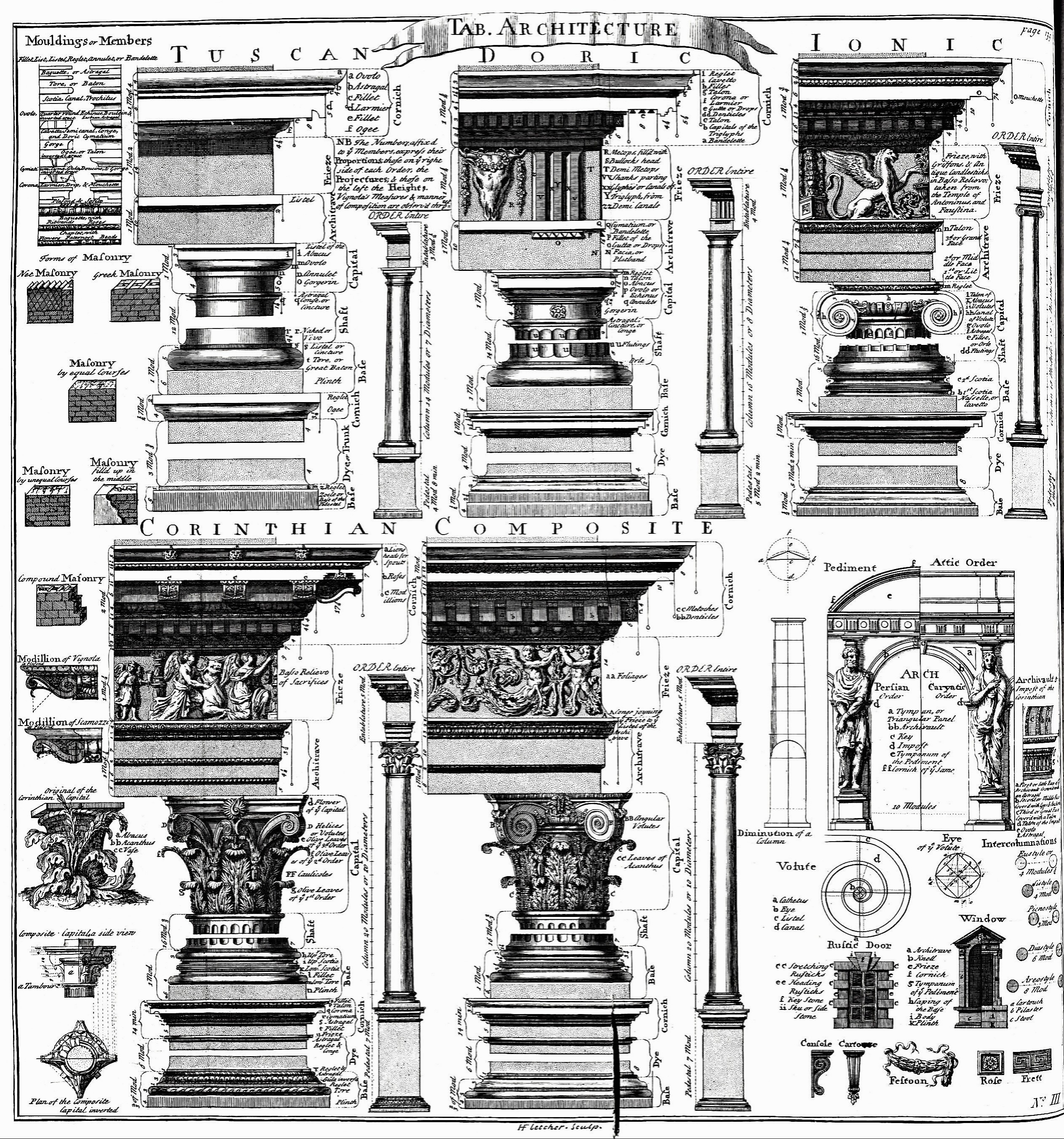 Table of architecture